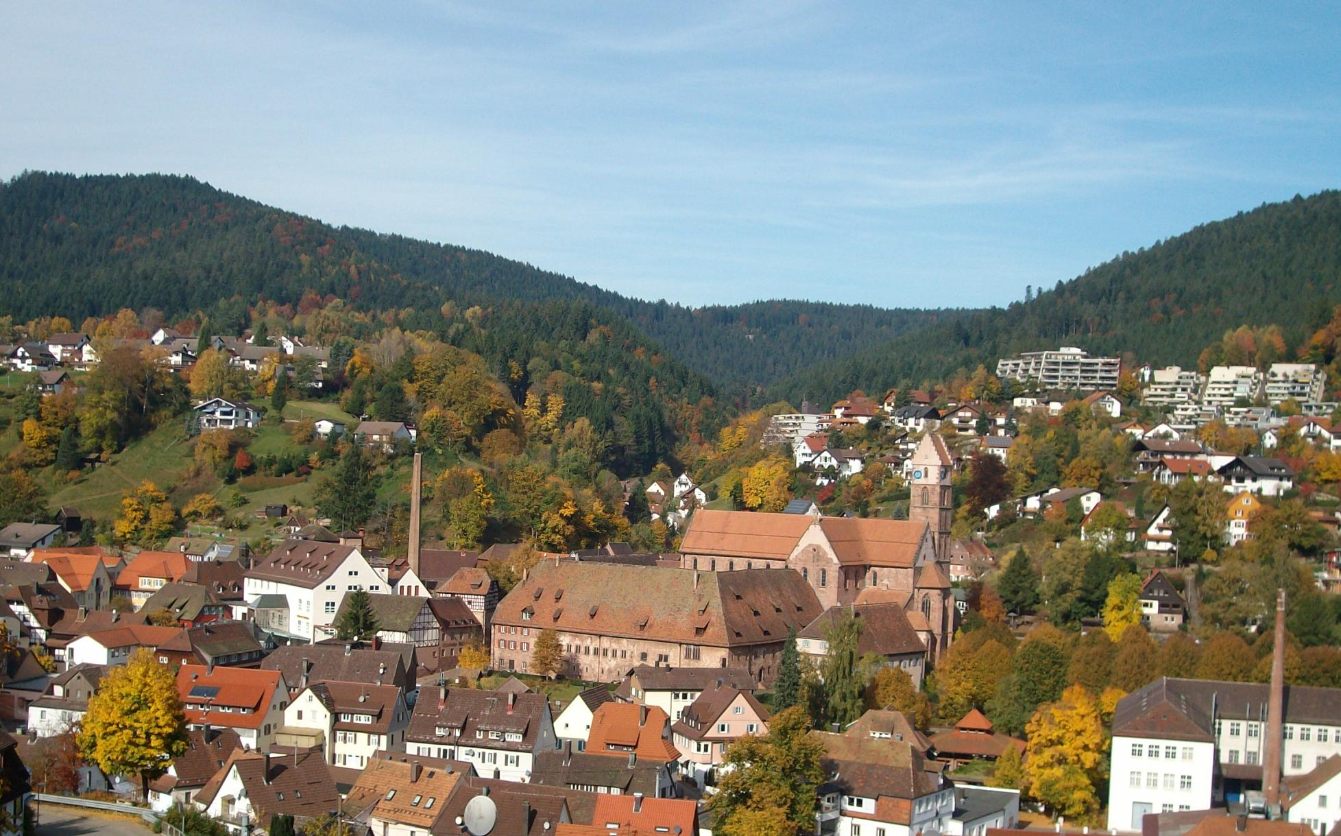 View over Alpirbach, seen from the east